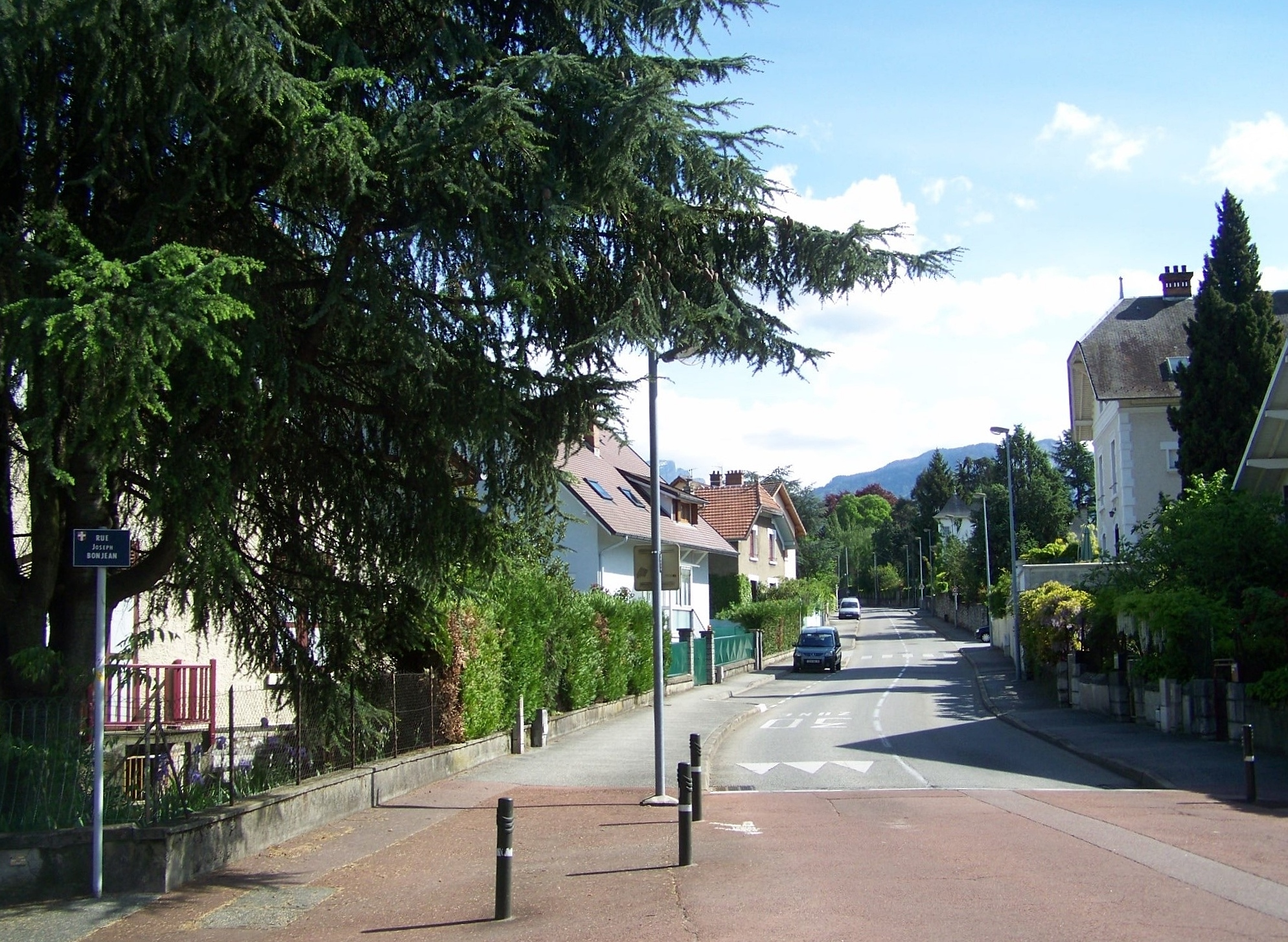 Sight of the chemin de Montjay street, a residential area on the hill of Montjay, near the city of Chambéry center, in Savoie, France.